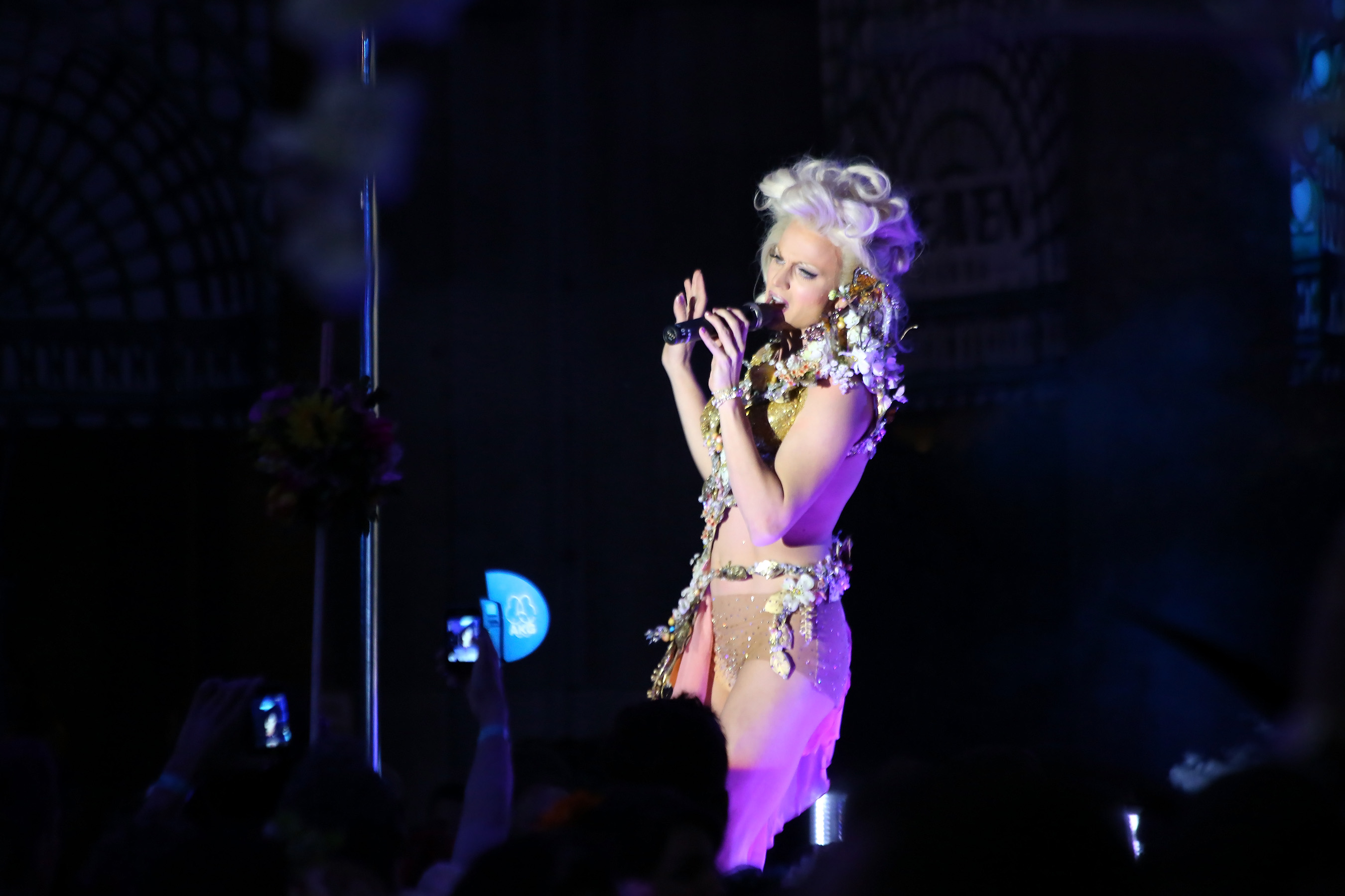 Courtney Act performing on Life Ball 2014 at the city hall of Vienna, Vienna, Austria.